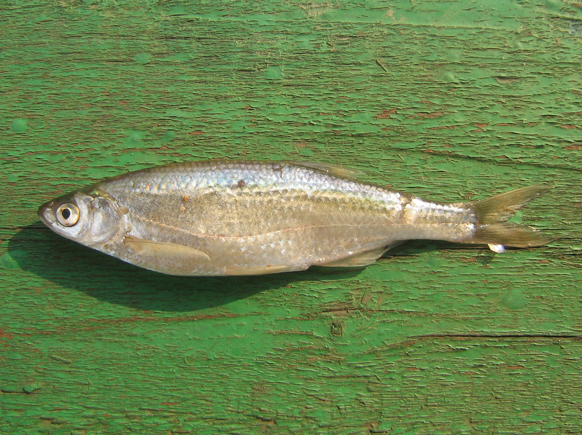 Common Bleak (Alburnus alburnus)